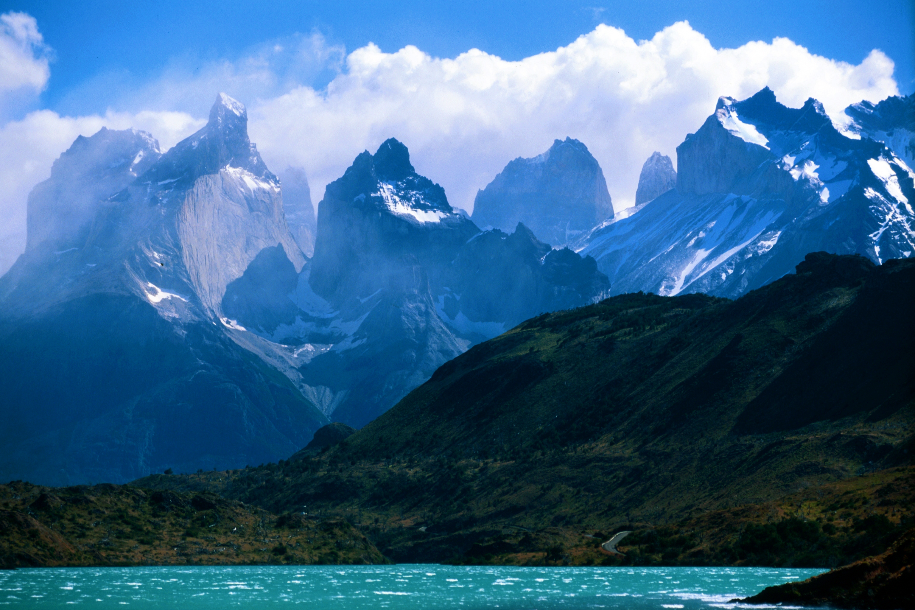 Looking Towards Torres Del Paine, Chile - Photographers Comment: "The blue colour-cast is real. It's just the colour of the light down there."